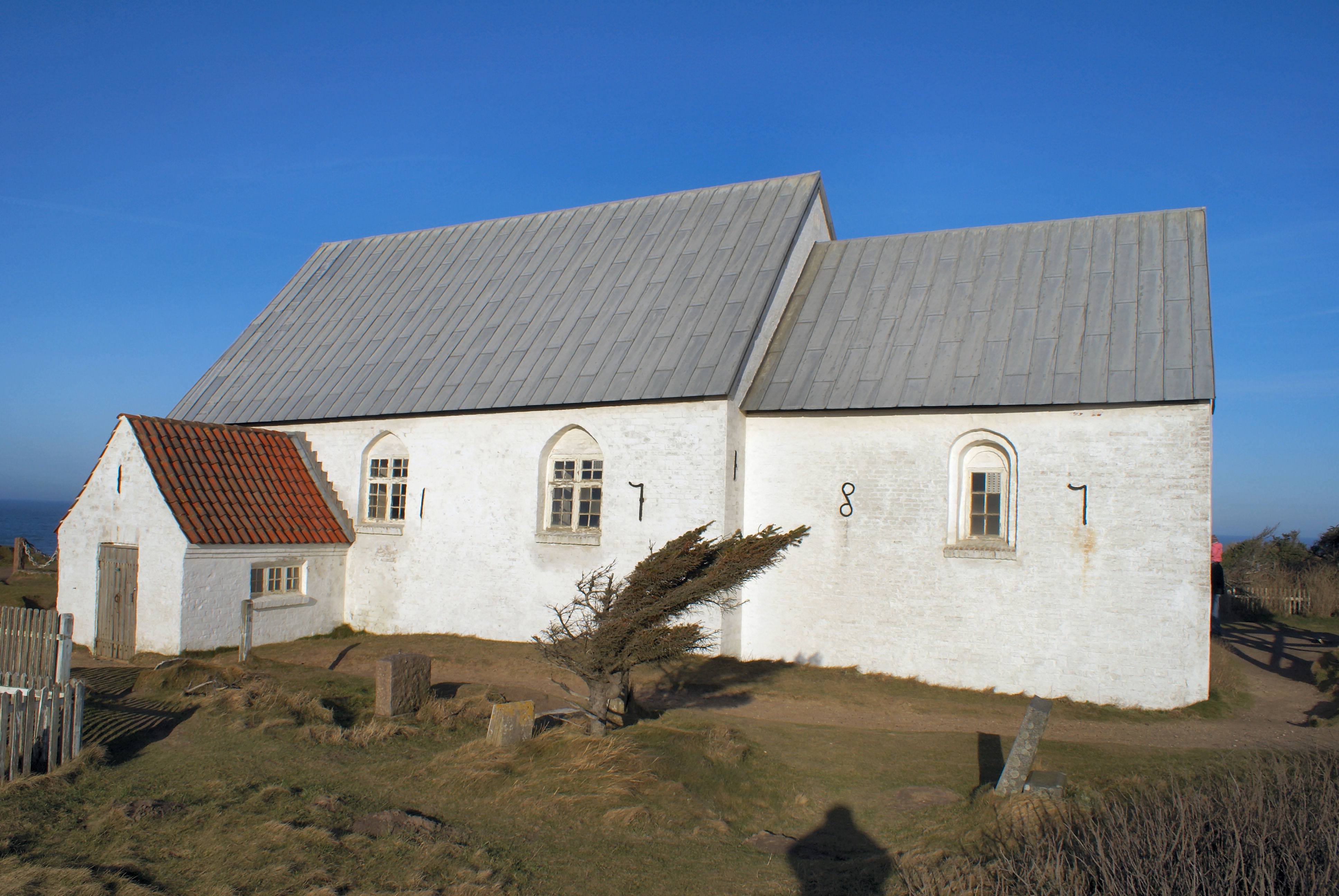 Church of Maarup, Denmark